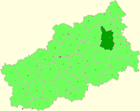 Tver Oblast map by Al Silonov